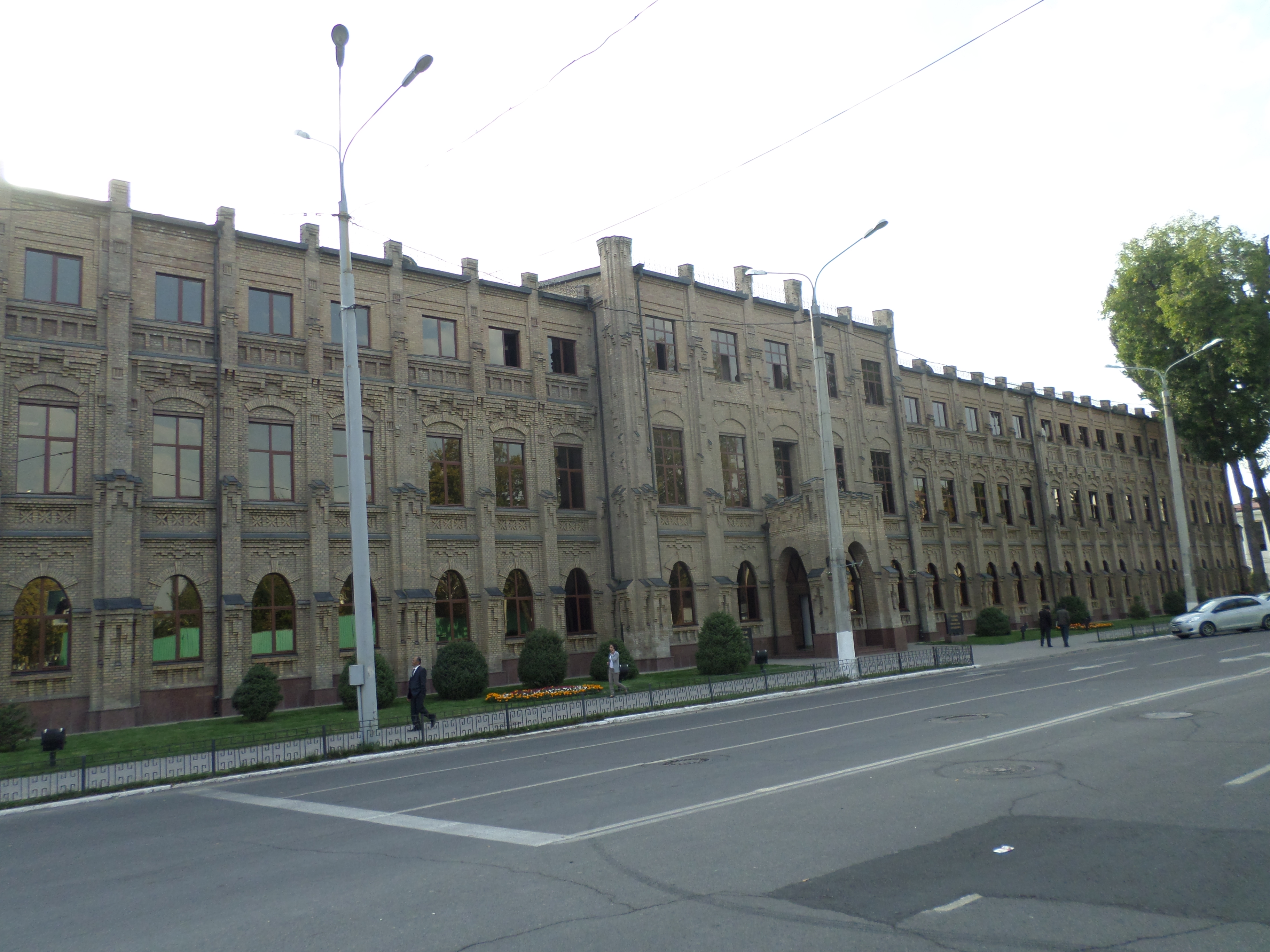 Westminster International University in Tashkent, Uzbekistan